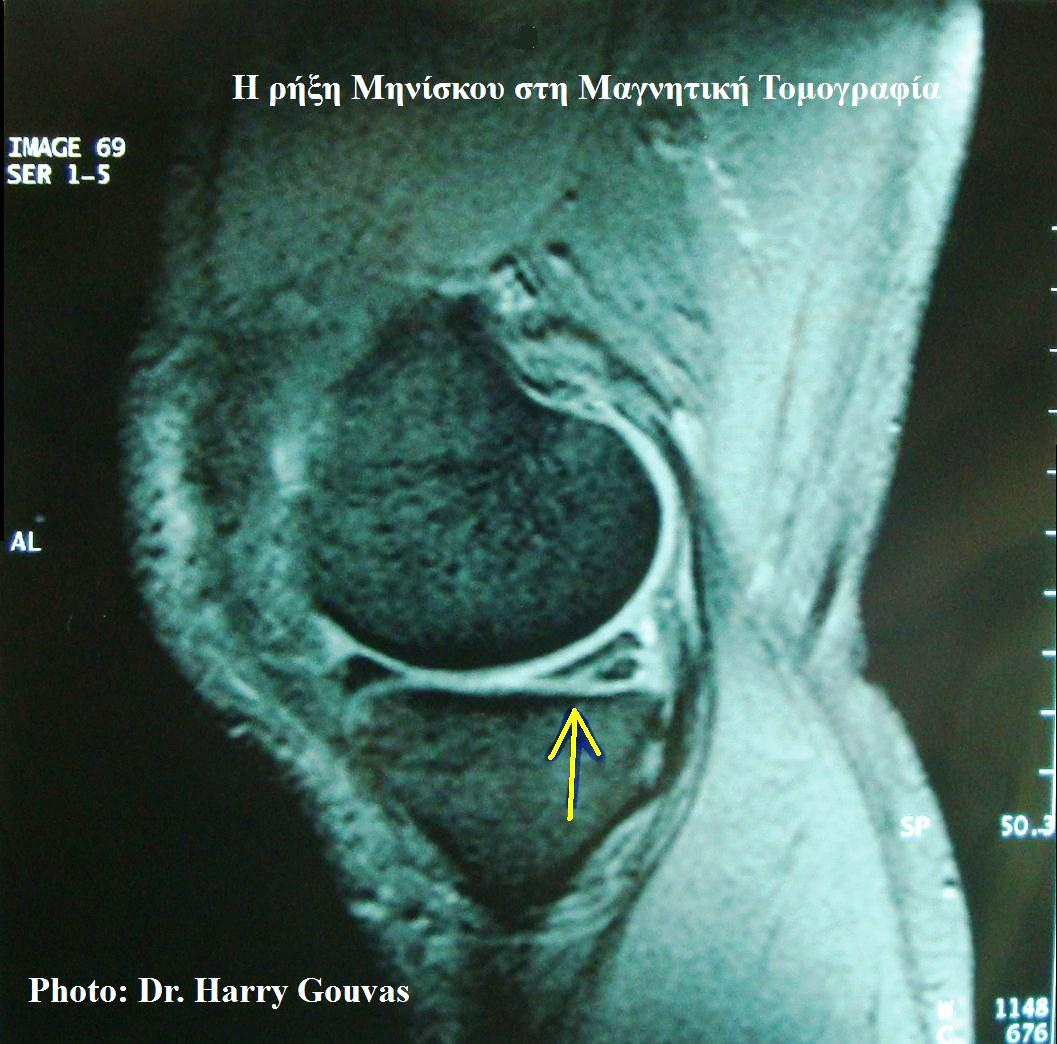 Meniscal Tear MRI